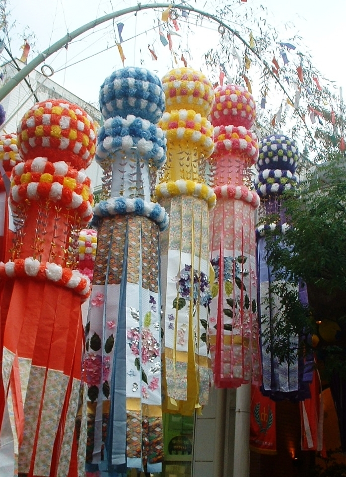 Tanabata decorations for the Tanabata Festival of Sendai.